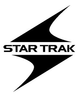 Star Trak's current logo.